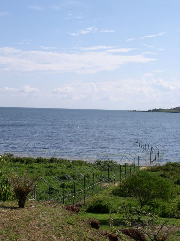 Ngamba Island Chimpanzee Sanctuary, lake Victoria, Uganda. Electric fence, that goes all the way out to the lake.